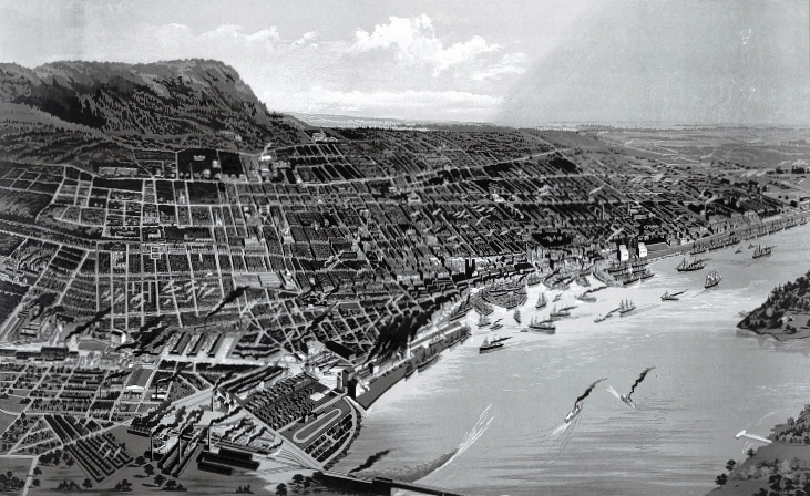 Map, City of Montreal, Anonymous, 1888. Ink on paper - Lithography - 55.8 x 91.4 cm